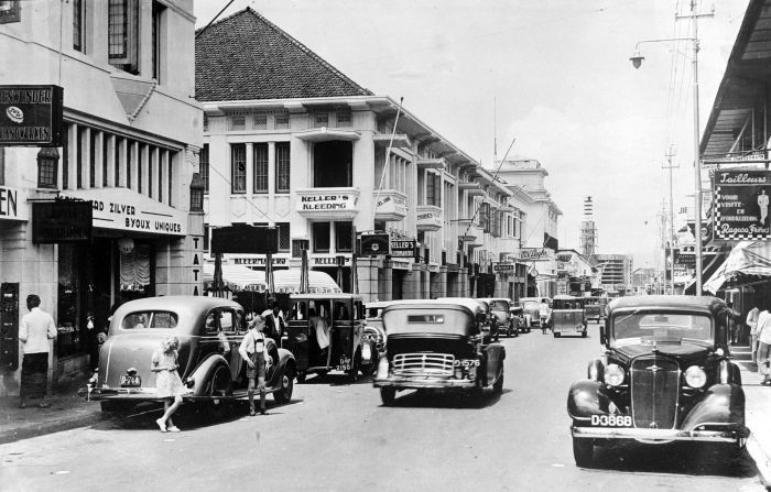 Braga Street, Bandung. Repronegative. Although some European cities in Java also see the latest car models from Europe and the United States, they are nevertheless immediately identified as Indies cities by the typical colonial architecture. The facades of the buildings are almost always completely white, and most buildings were built between 1900 and 1930, a period of strong economic growth. The architecture closely followed European fashions. Yet it seems the implementation is usually slightly more playful than in the motherland, as if the architects felt freer in the Indies than at home. There was a very distinctive colonial architecture, which to date remains visible. (P. Boomgaard, 2001).